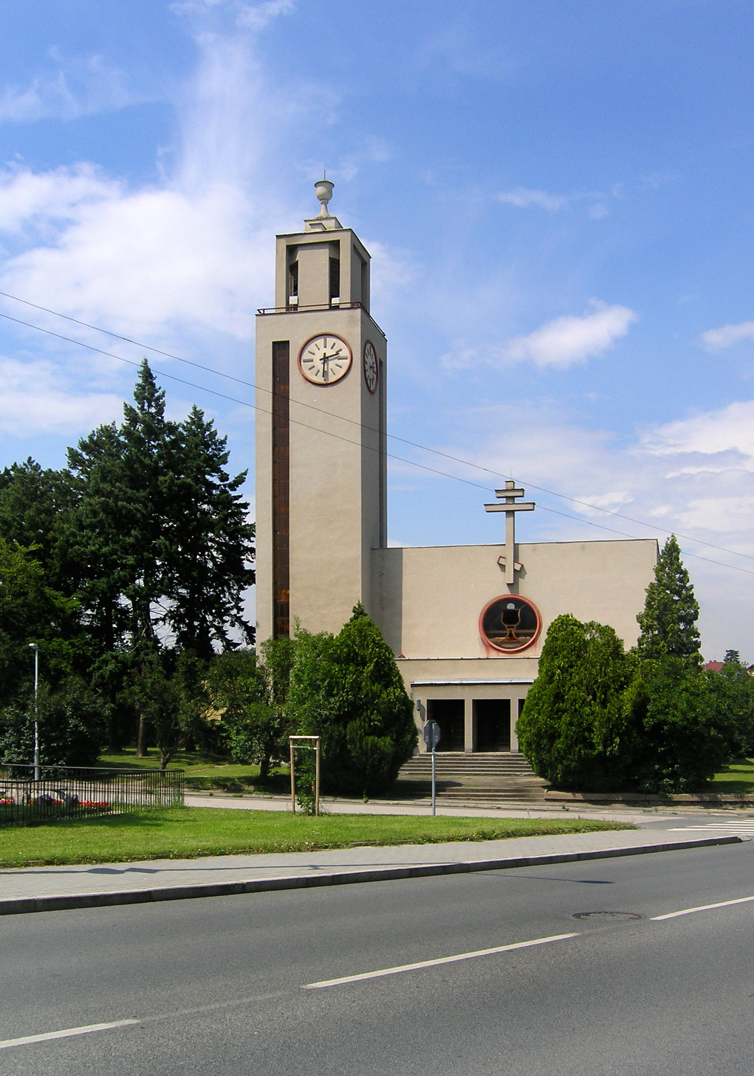 Husův sbor church in Zbraslav, Prague